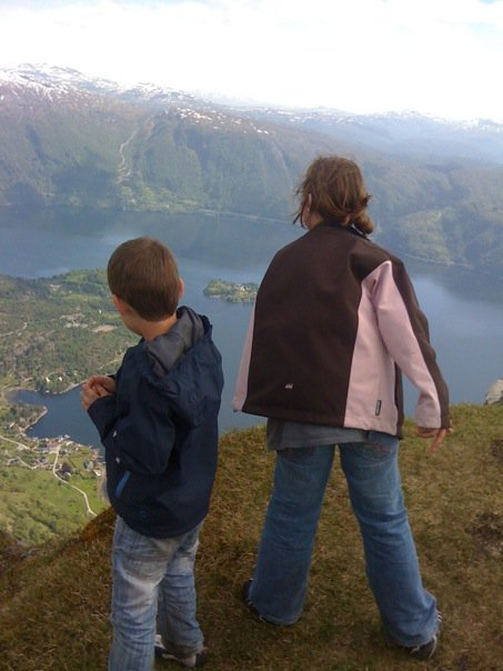 View from Bruviknipa